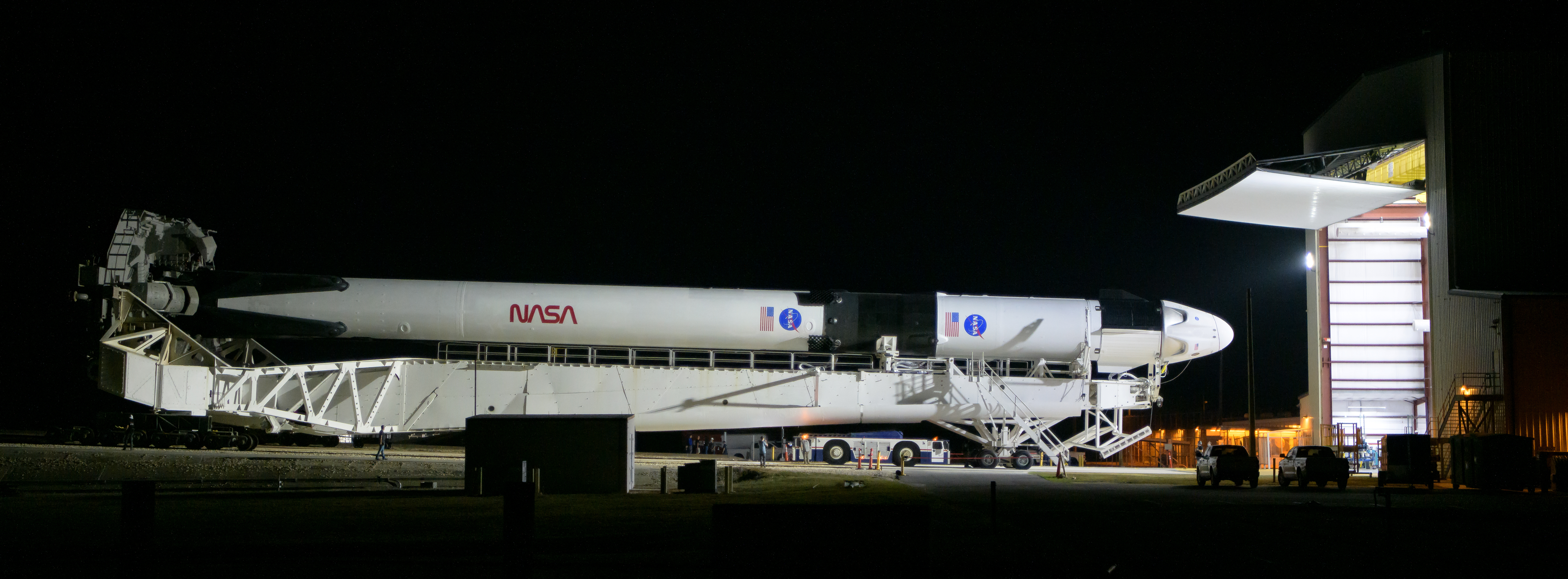 Rollout of SpaceX's Falcon 9 rocket and Crew Dragon capsule before the DM-2 mission to the ISS